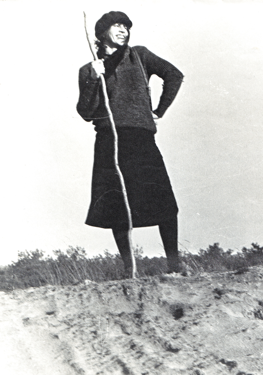 Nicole van den Plas, Mol 1971